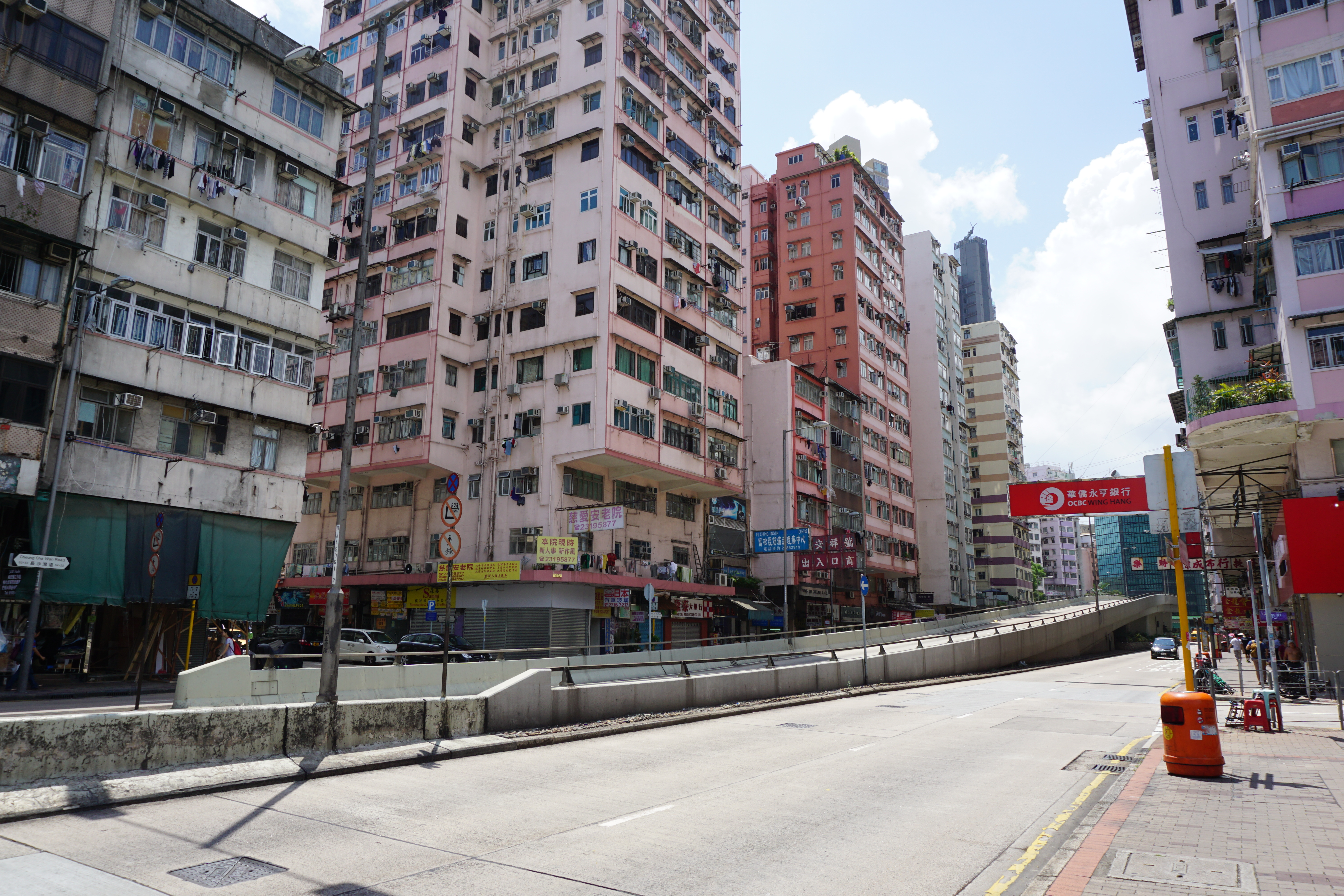 Maple Street and Cheung Sha Wan Road in Sham Shui Po, Hong Kong.